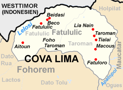 Administrative map of the Fatululic administrative post of East Timor